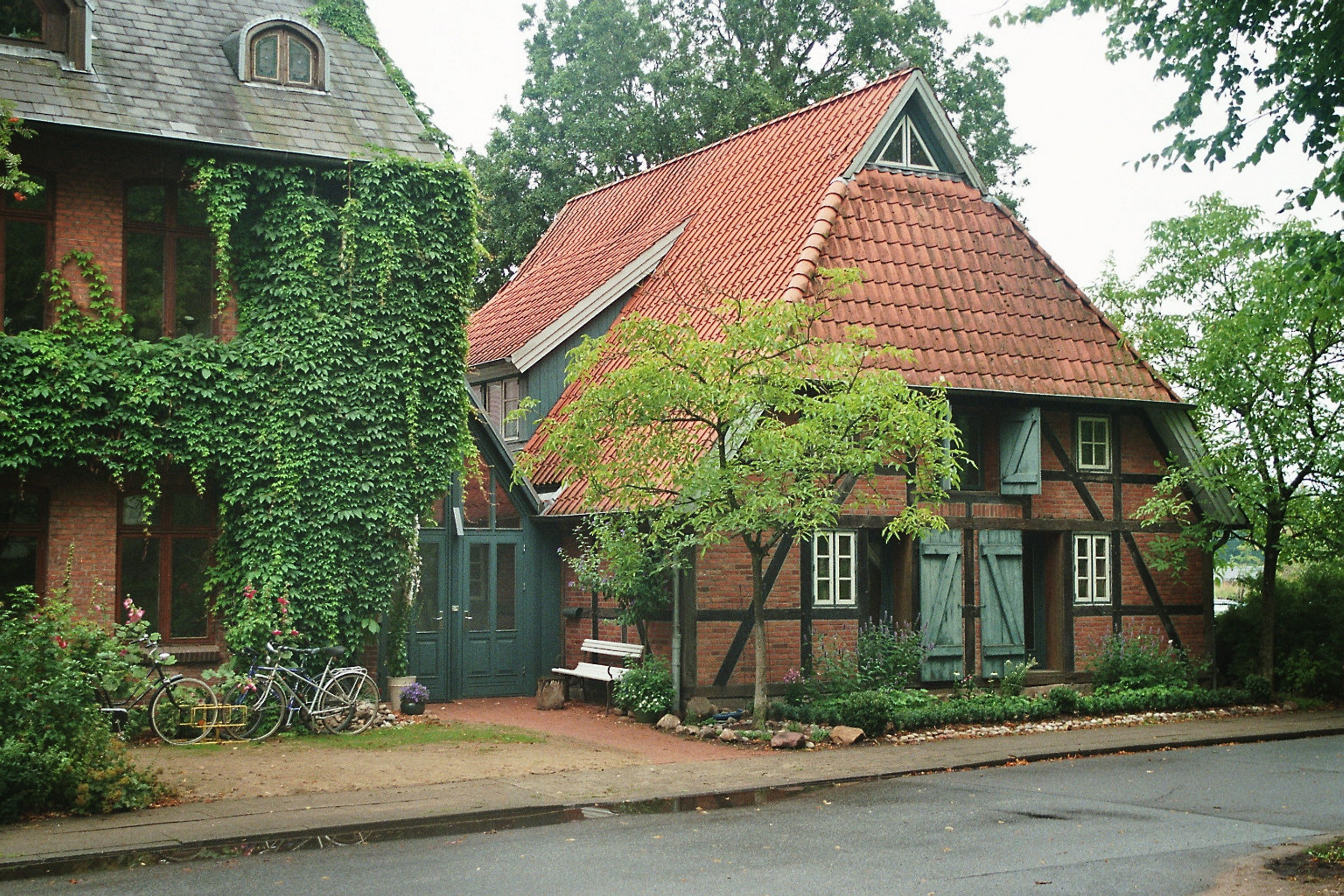 Barsbek, the houses 4 and 6 Op´n Dörp